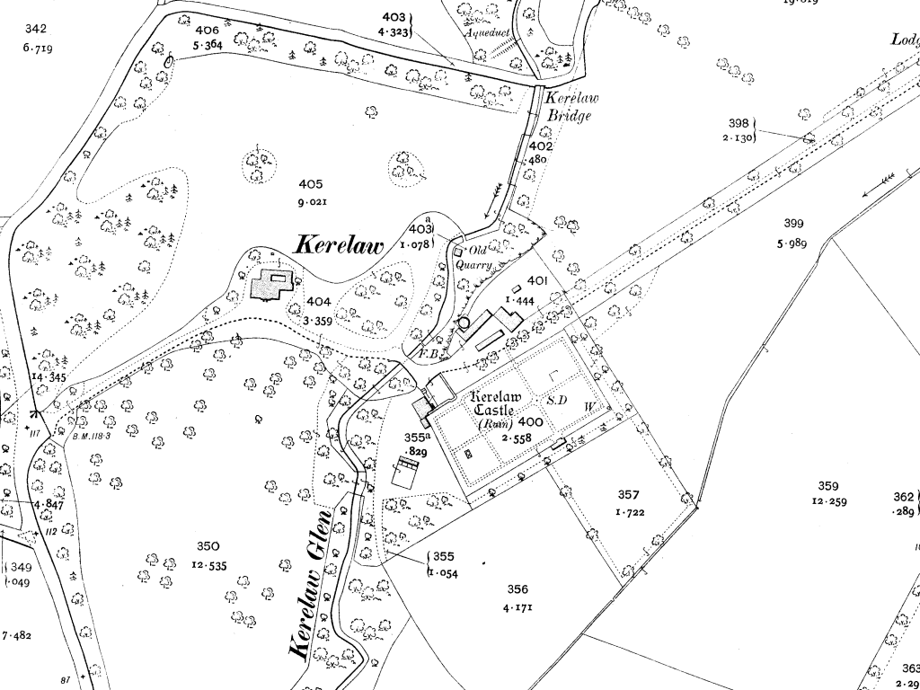 OS map of the Kerelaw Estate in Stevenston, dated 1910.